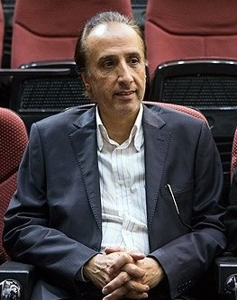 Mohammad Reza Hayati and his wife